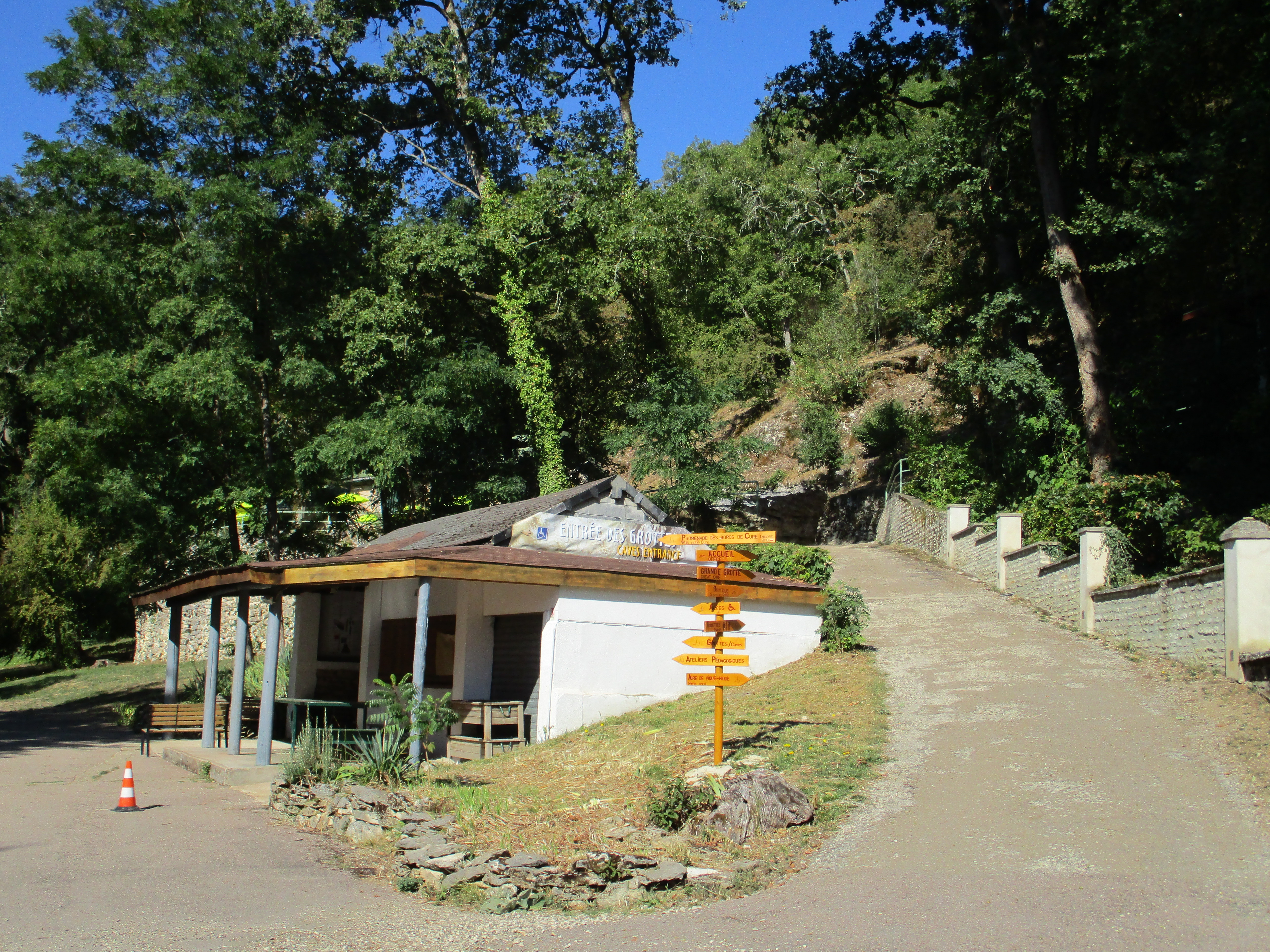 Caves of Arcy-sur-Cure, Yonne, Burgundy, France. View from the car park. The building seen here is the way out for the Great cave, main cavity of the site. The alley going upward on the right leads to the souvenir shop and ticket-selling building (seen through the trees behind and above the first building), with the entrance to the Great cave at the top of the path and on its right. On the left of the photo is the begining of the path along the Cure river, with the Cure